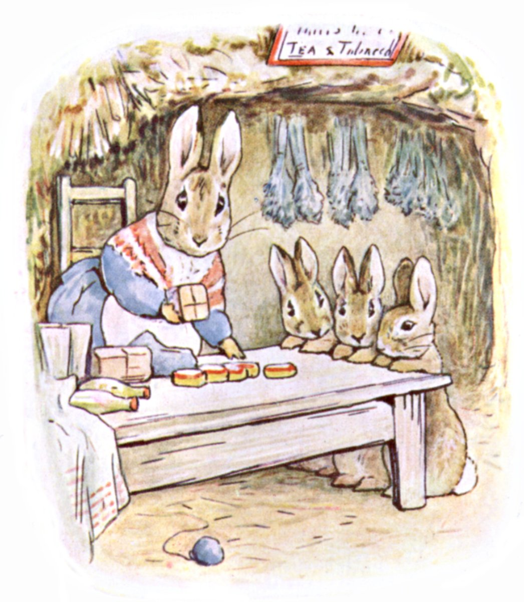 Mrs. Rabbit at her shop with Flopsy, Mospy, and Cotton-tail, from The Tale of Benjamin Bunny